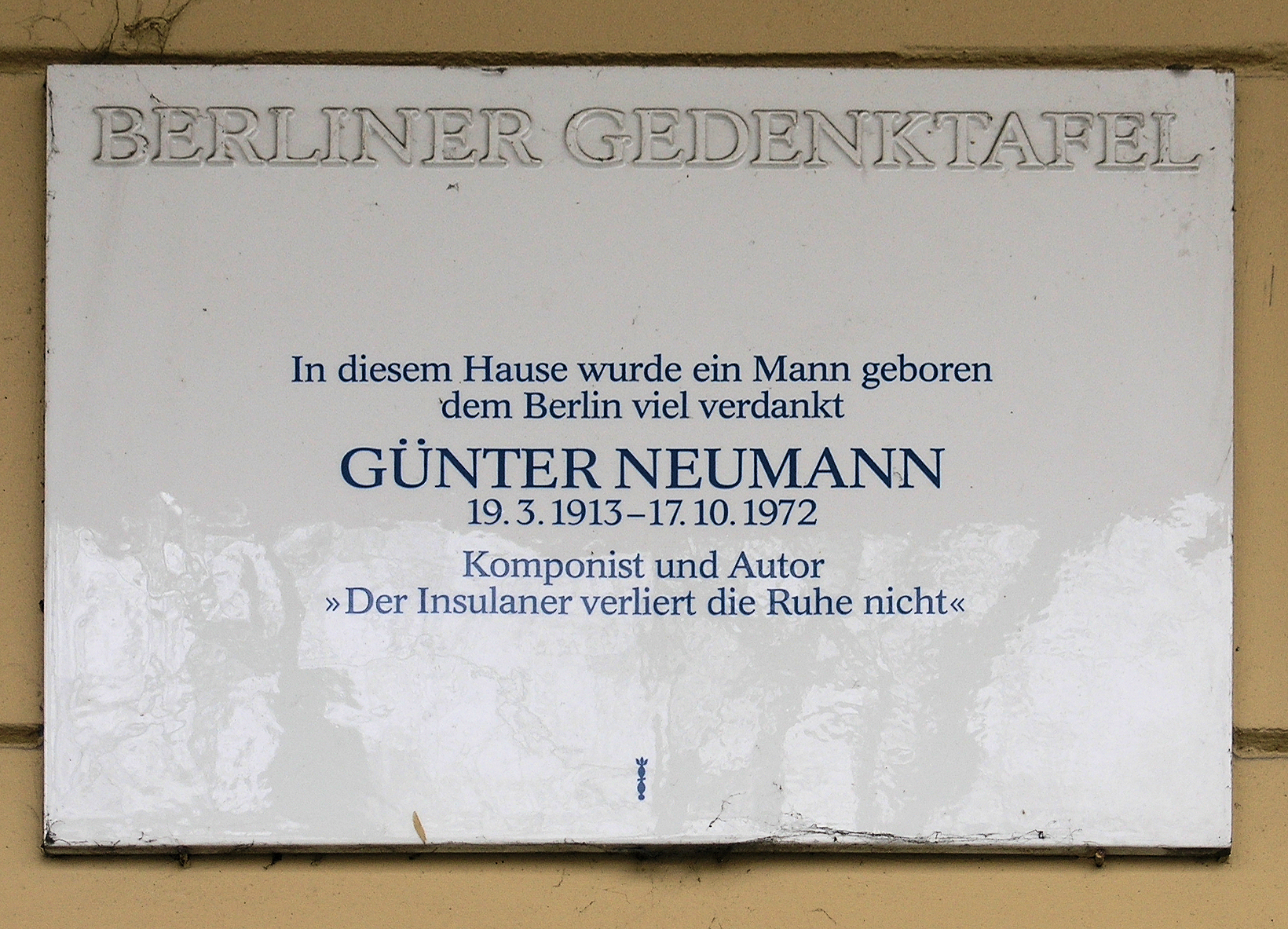 Berlin memorial plaque, Günter Neumann, Mommsenstraße 57, Berlin-Charlottenburg, Germany Koordinate:52°30′11″N 13°18′49″E / 52.50306°N 13.31361°E